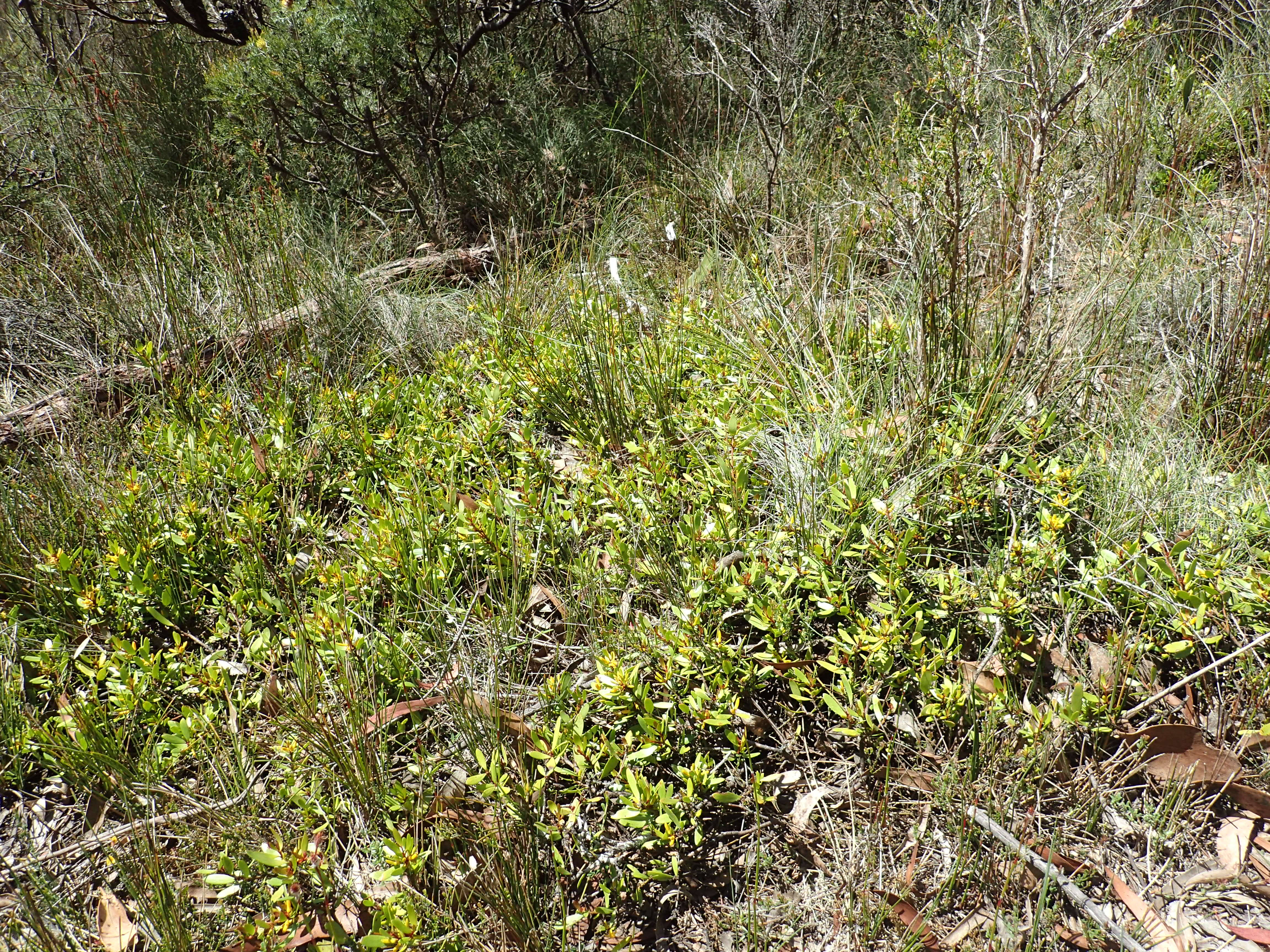 Persoonia procumbens growing adjacent to Native Dog Creek, near the Barokee Track in the Cathedral Rocks National Park